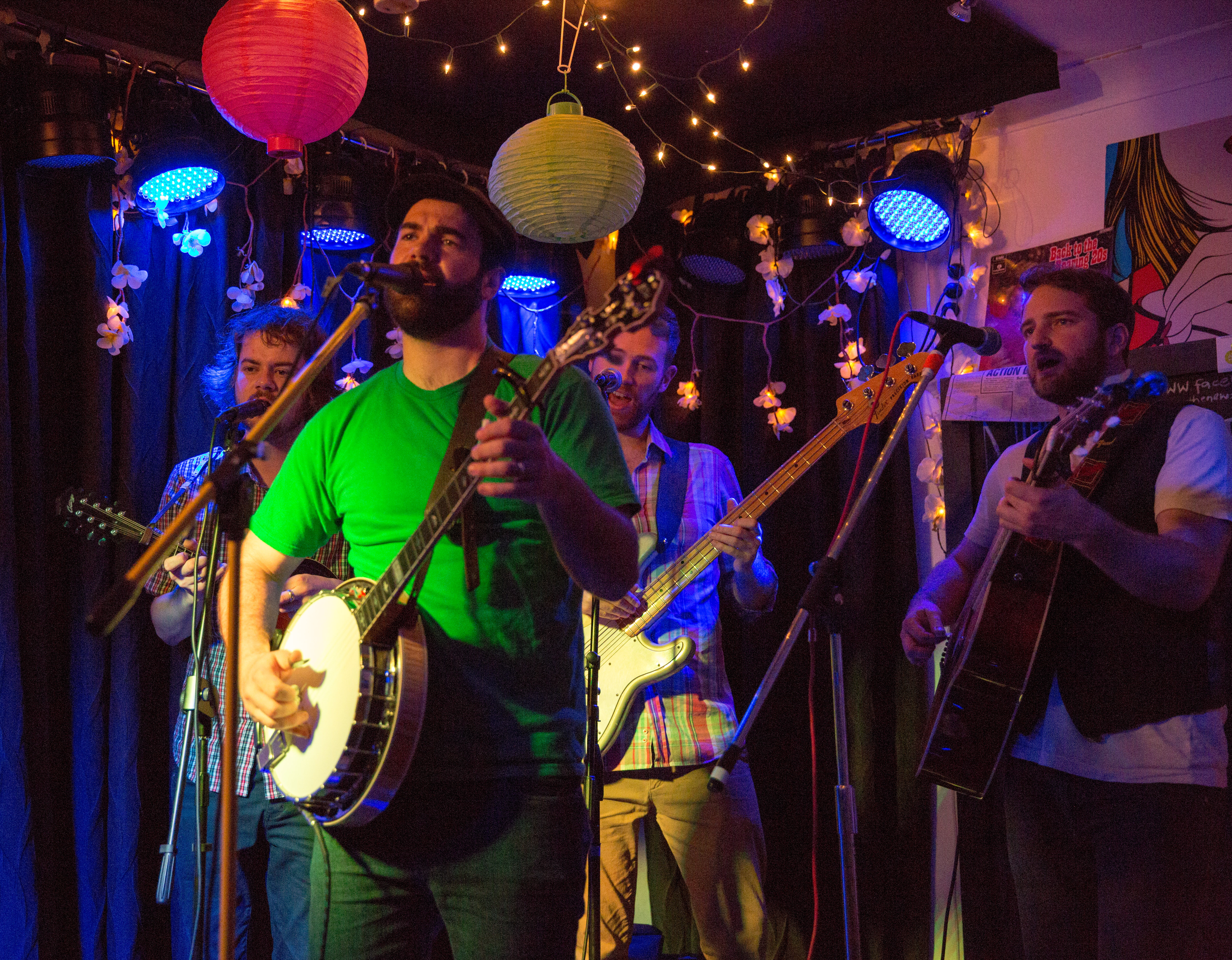 Mustered Courage @ The Newsagency - 7th Sep 2013